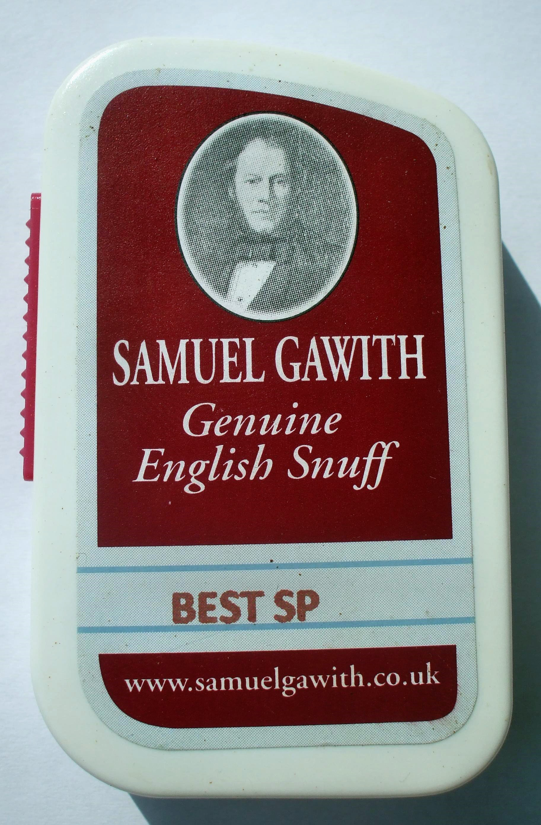 Samuel Gawith Snuff Tin